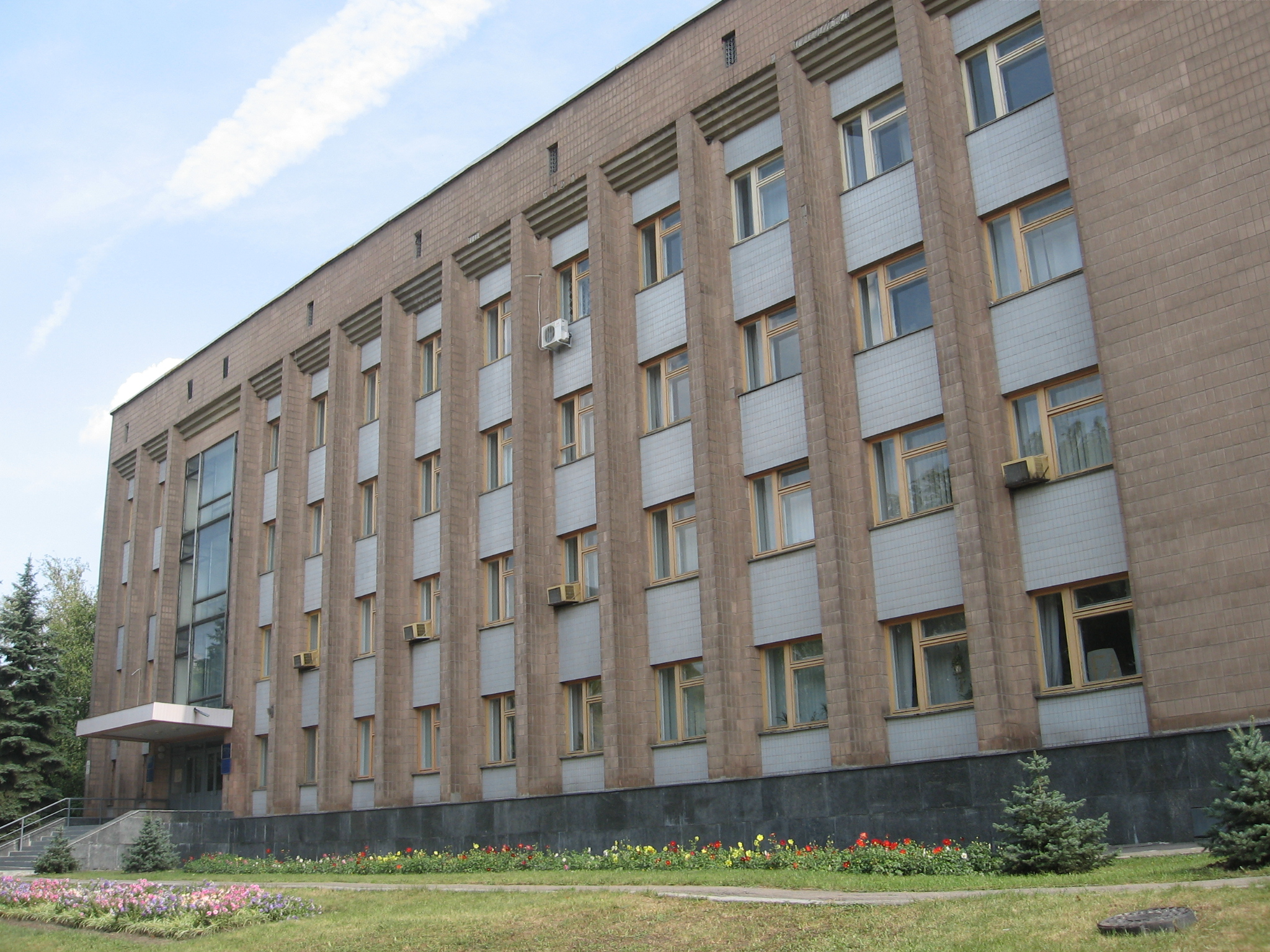 Executive Committee of Frunzensky district, Kharkiv, Ukraine.